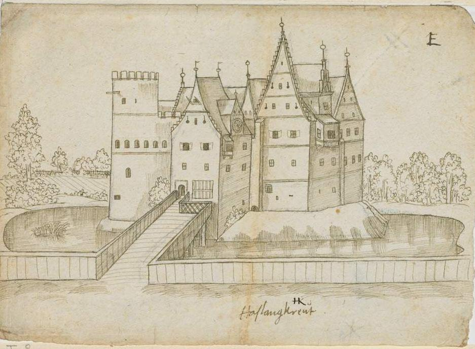 The castle Haslangkreit in bavaria.